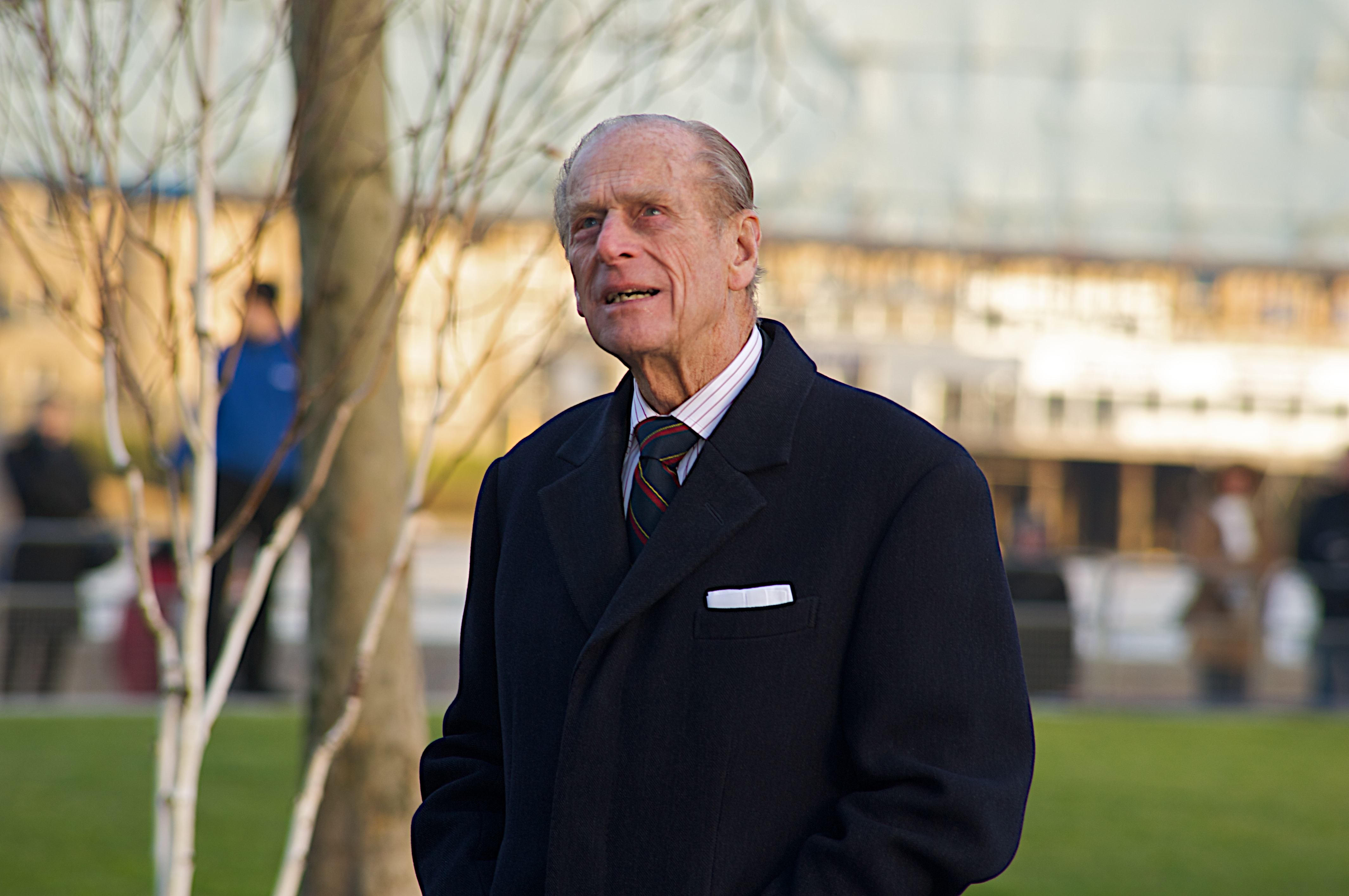 Prince Philip, Duke of Edinburgh, husband of Queen Elizabeth II of the United Kingdom, looking at City Hall in London.